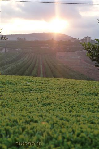 Flora of Israel